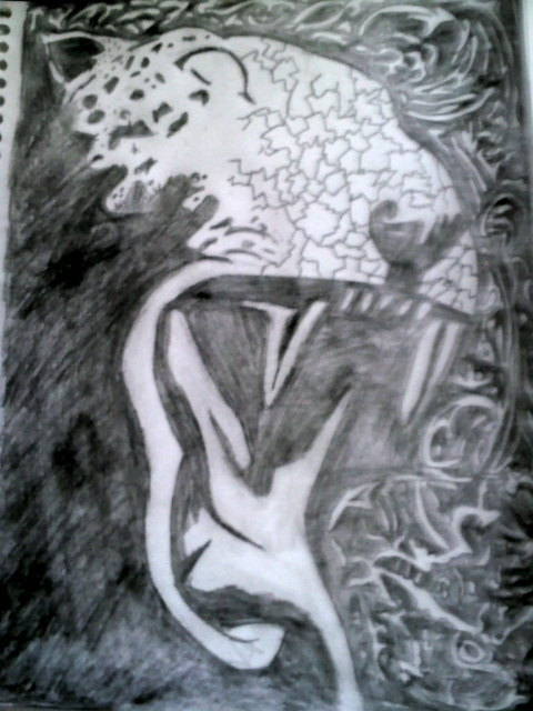 replica album cover